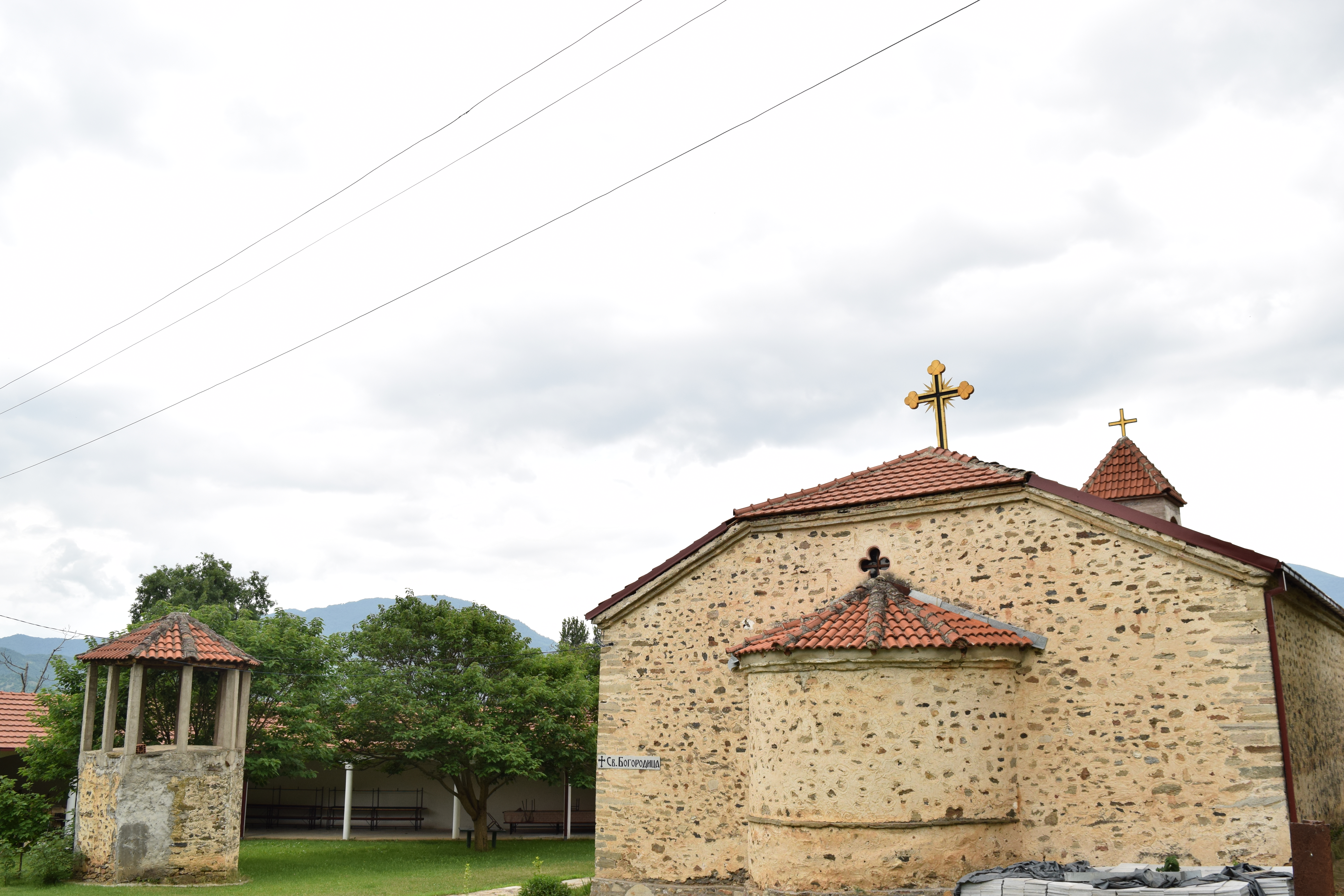 View of the St. Mary Church in the village Bistrica